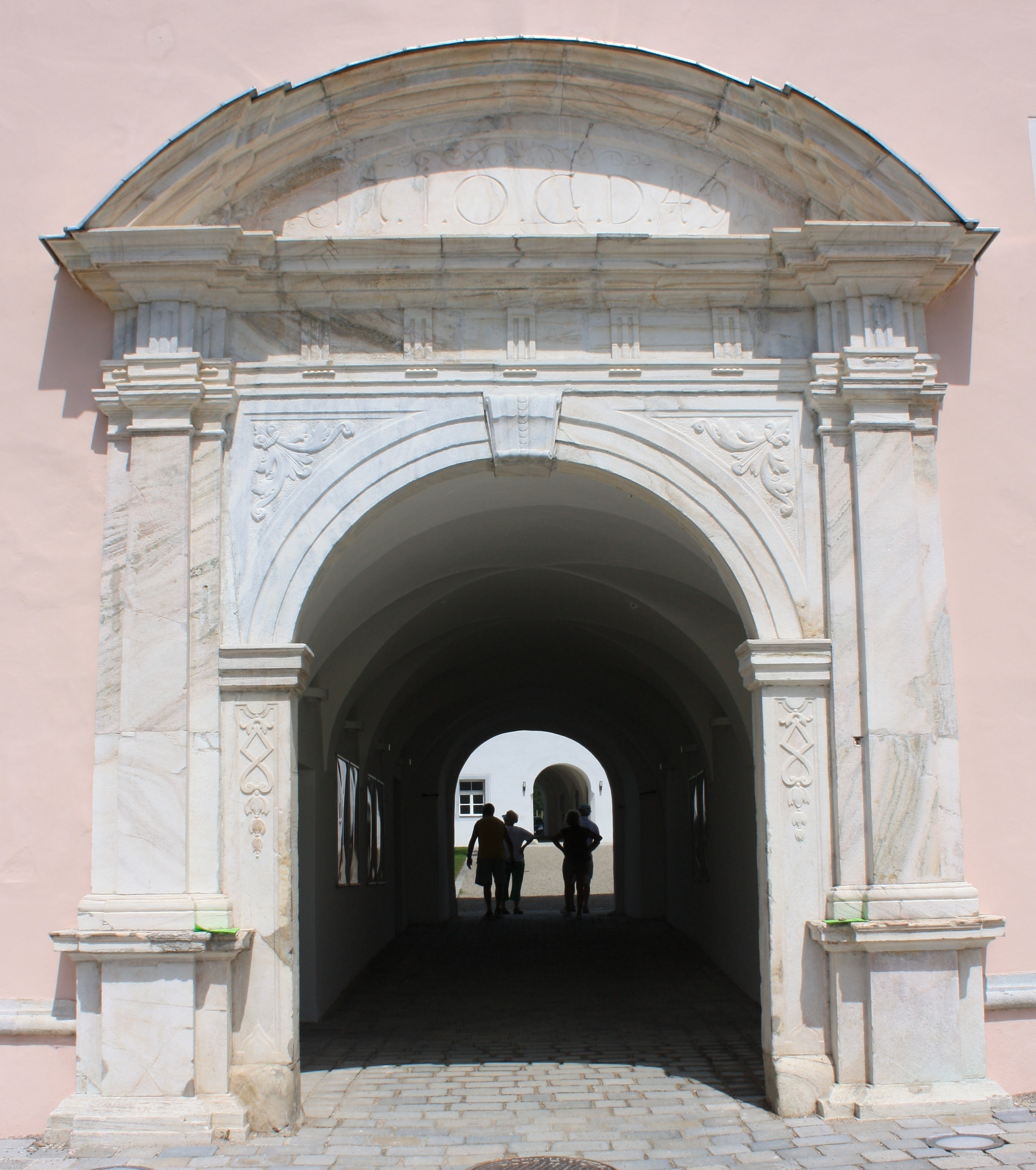 Monastery Ossiach - Main entrance Community:Ossiach District:Feldkirchen State:Carinthia Country:Austria